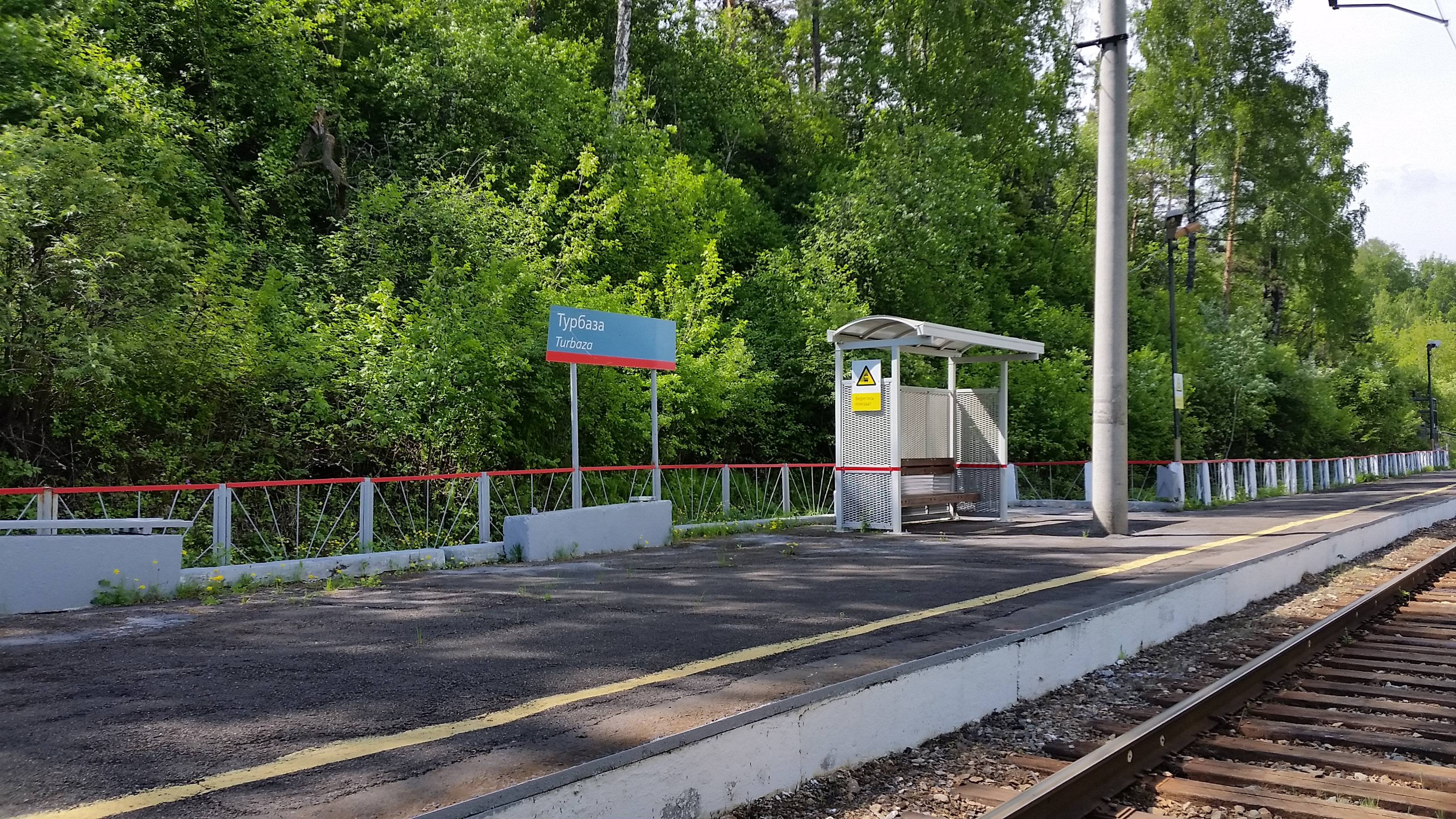 The train halt «Turbaza» (6.4km of railway branch Enisey - Divnogorsk)